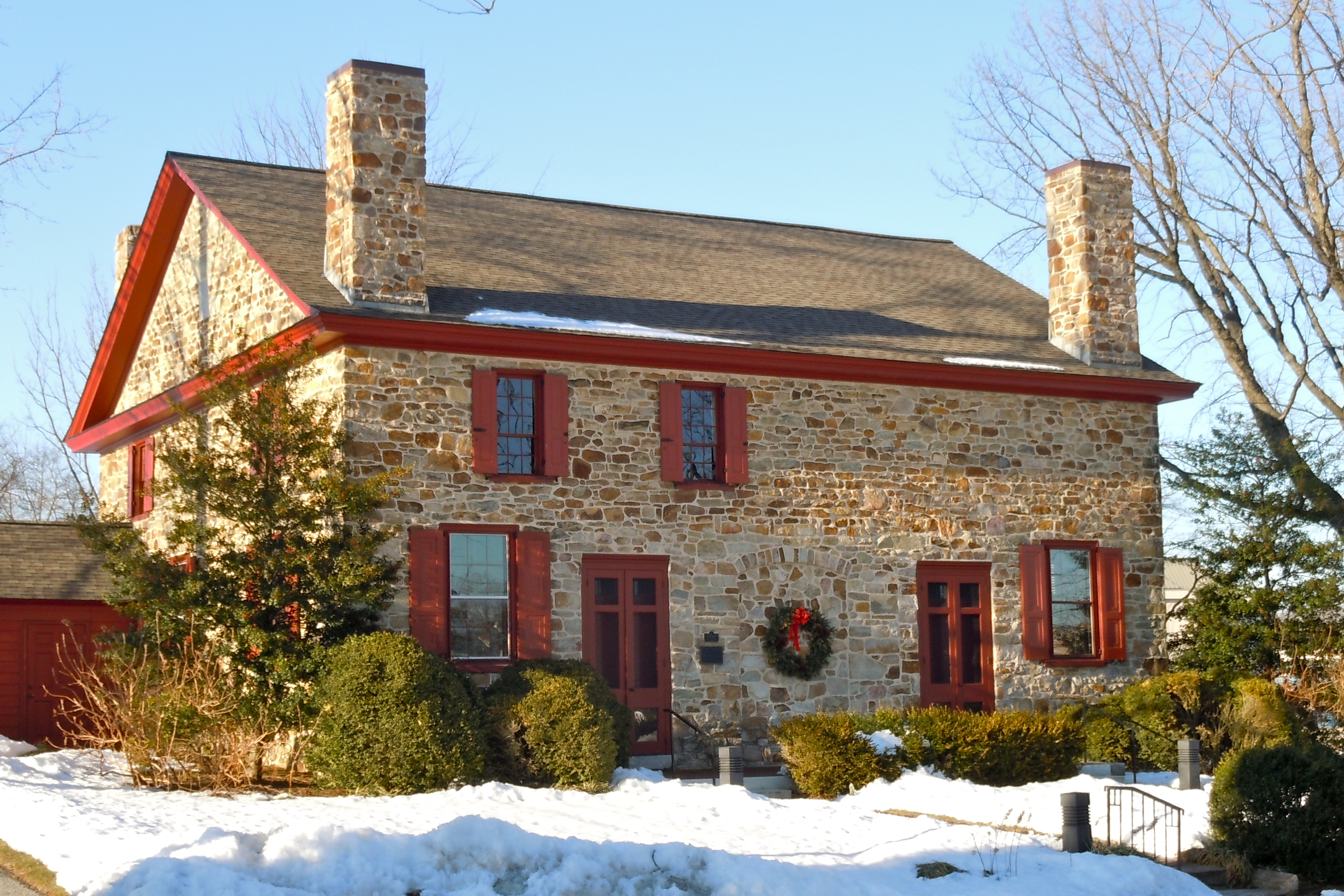 Uwchlan Meetinghouse on the NRHP since September 20, 1973. At North Village Avenue (Pennsylvania Route 113) in Lionville, Uwchlan Township, Chester County, Pennsylvania. Just north of the Lionvill Historic District, also on NRHP. Built 1756. Welsh name. Quaker meetinghouse.